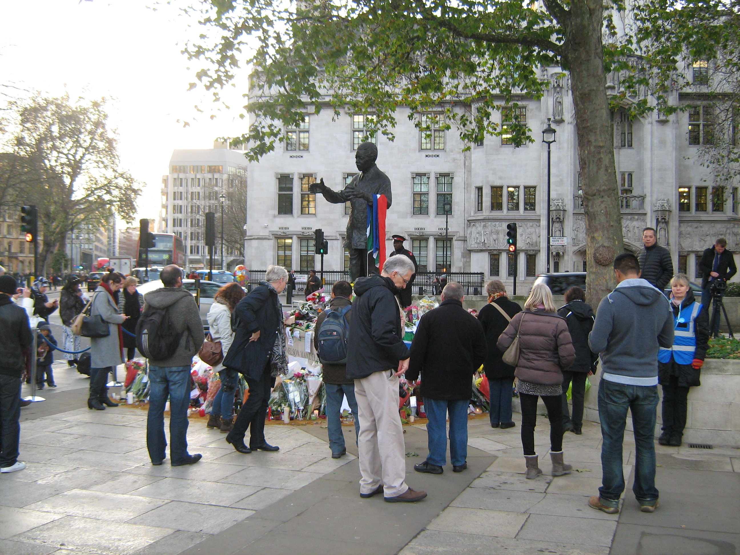 Flowers around the London-statue of Nelson Mandela shortly after his dead.